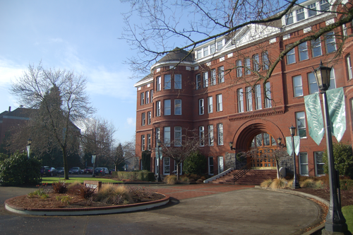 Waldschmidt Hall (formerly West Hall) at the University of Portland, OR. Author: Ole J. Forsberg